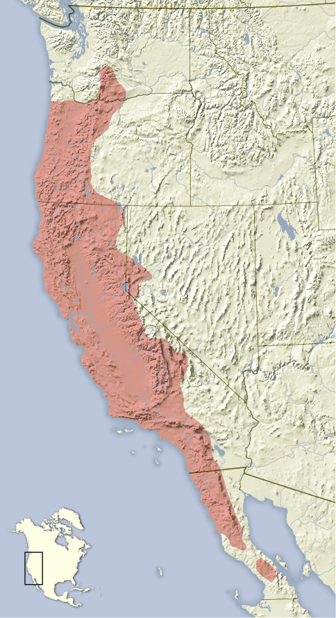 Distribution map of the California ground squirrel